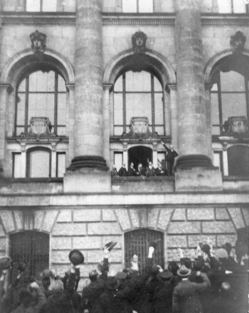 German Republic was proclaimed by MSPD member Philipp Scheidemann at the Reichstag building